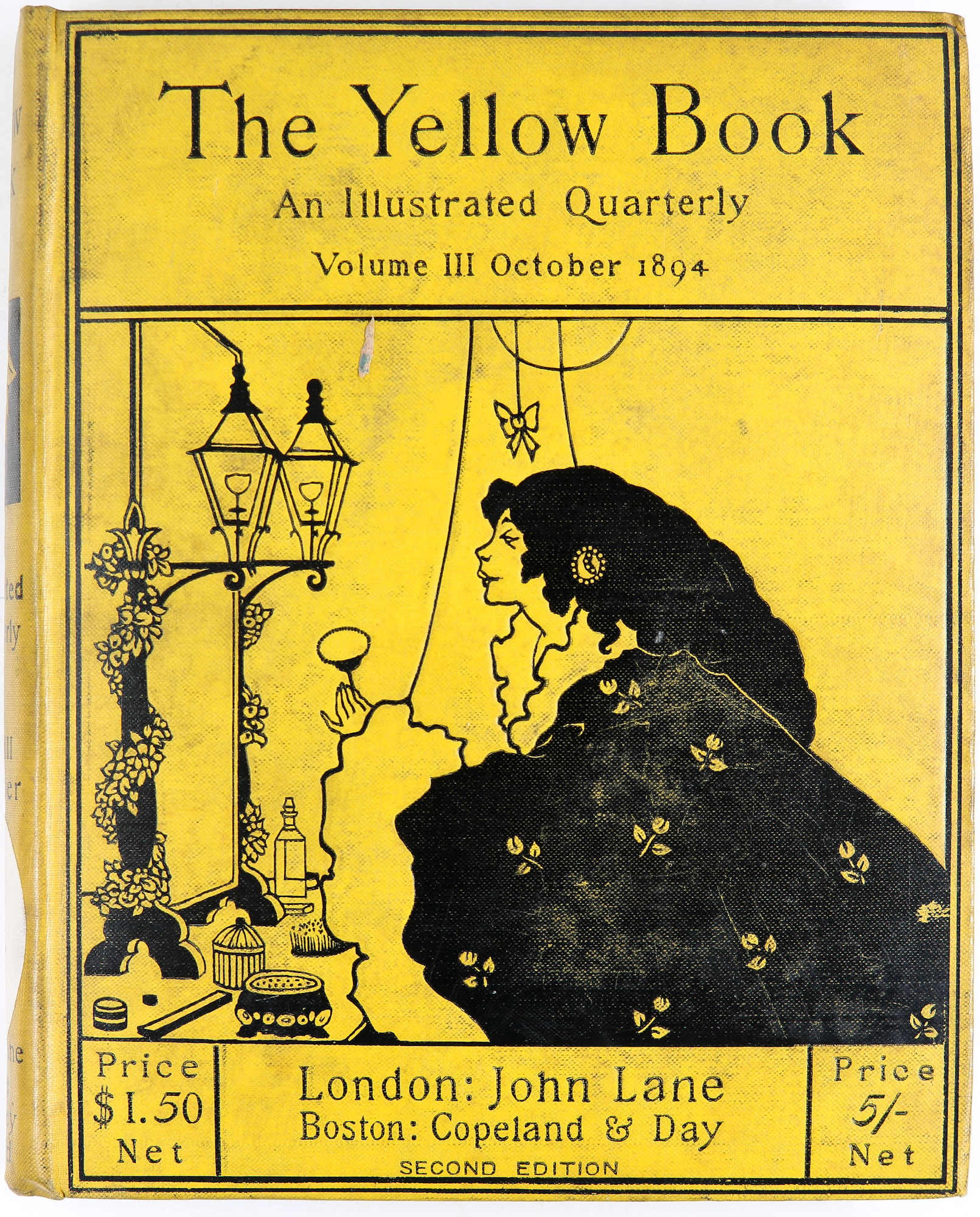 The Yellow Book